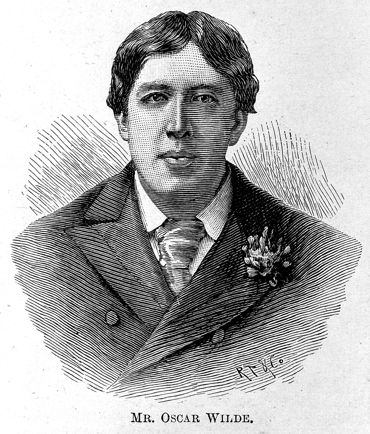 Portrait of Oscar Wilde. General Collections Keywords: famous patients; Writers; Syphilis; Homosexuality; Oscar Wilde